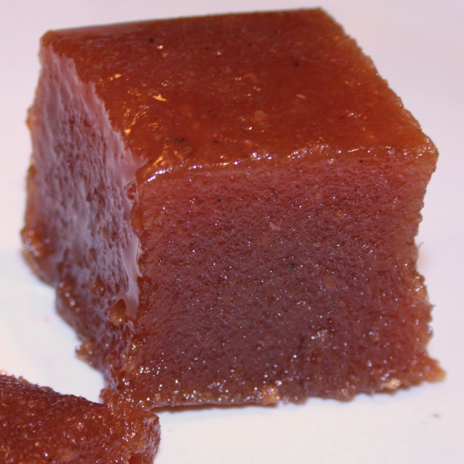 carne de membrillo, quince paste from Spain